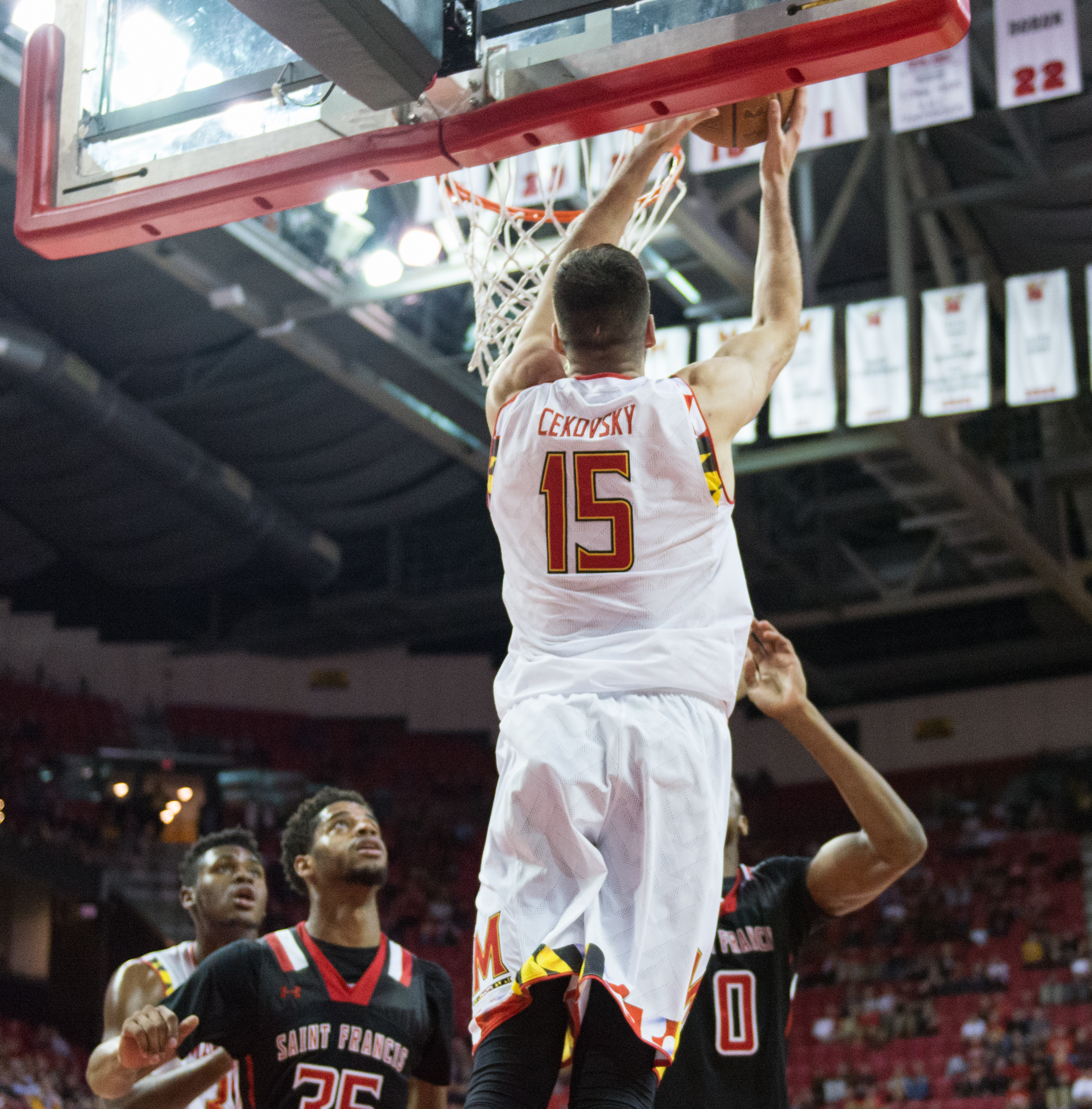 Michal Čekovský of Maryland dunks